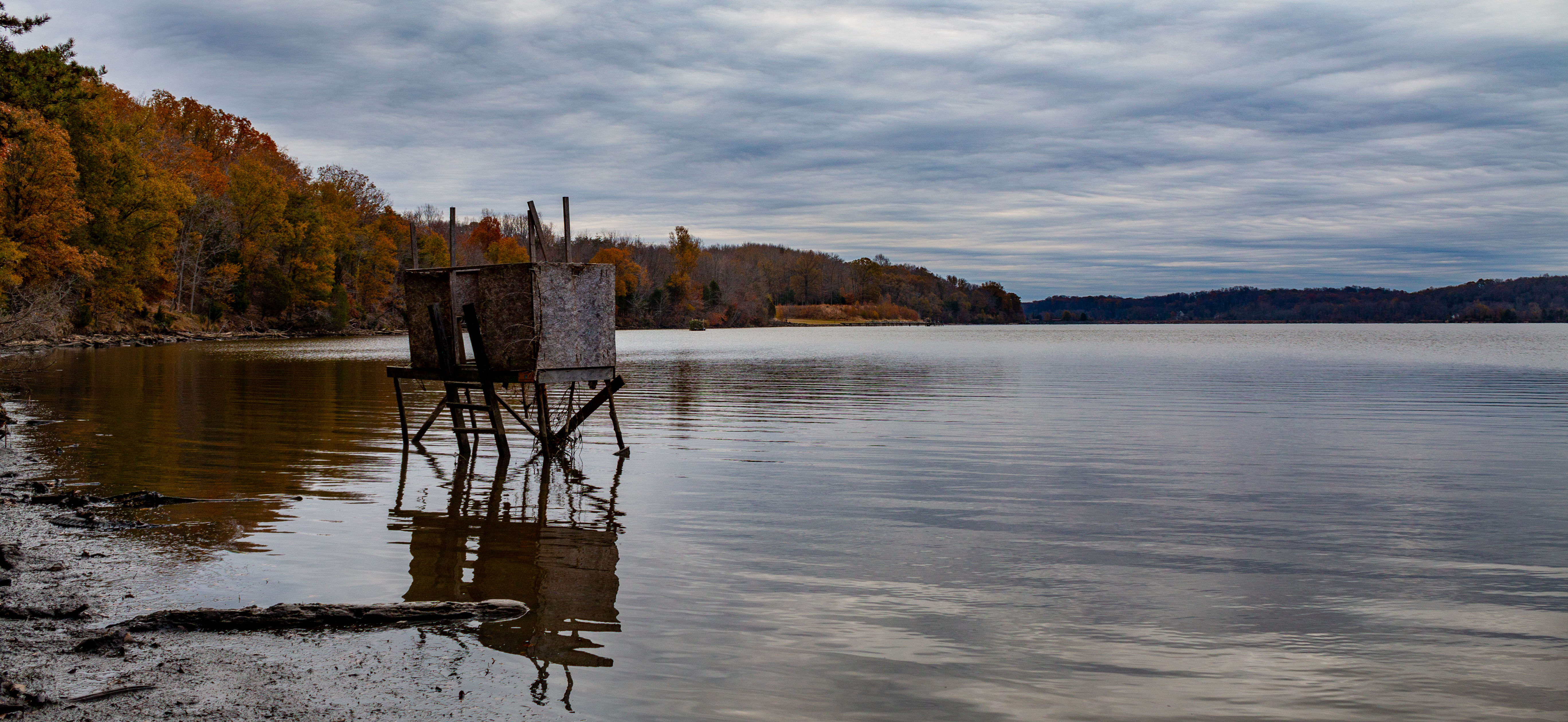 WW Serenity at Widewater State Park